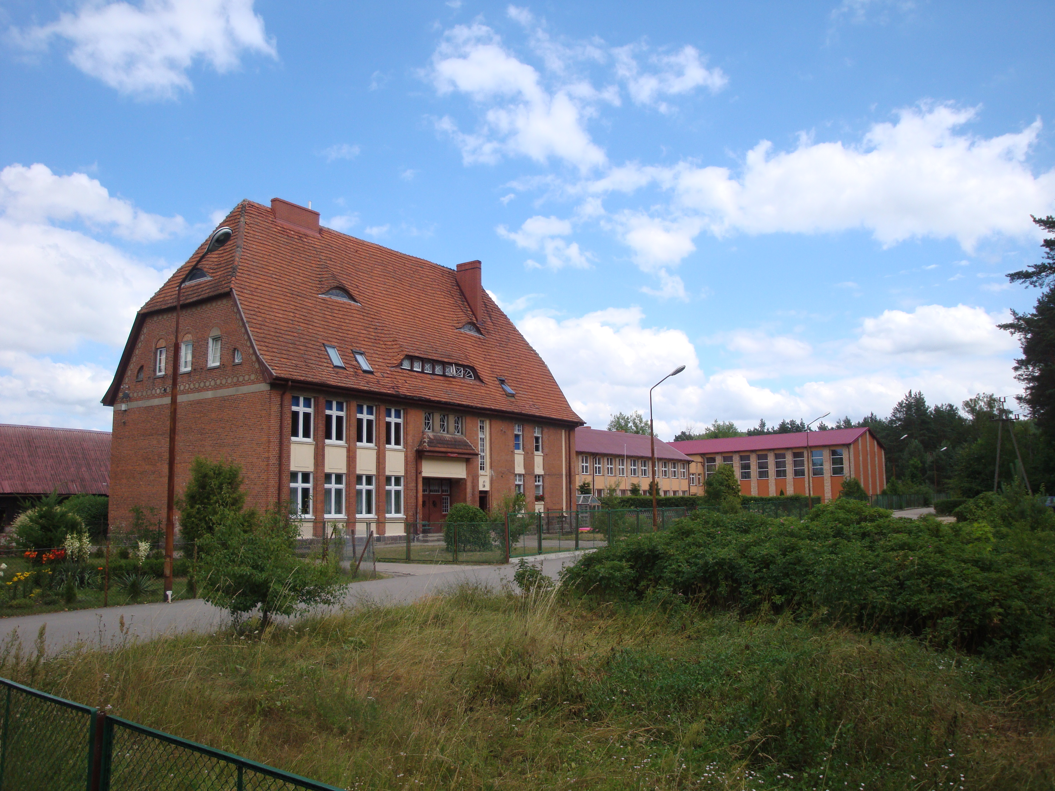 Leśnice-village near Lębork, Poland. Elementary school